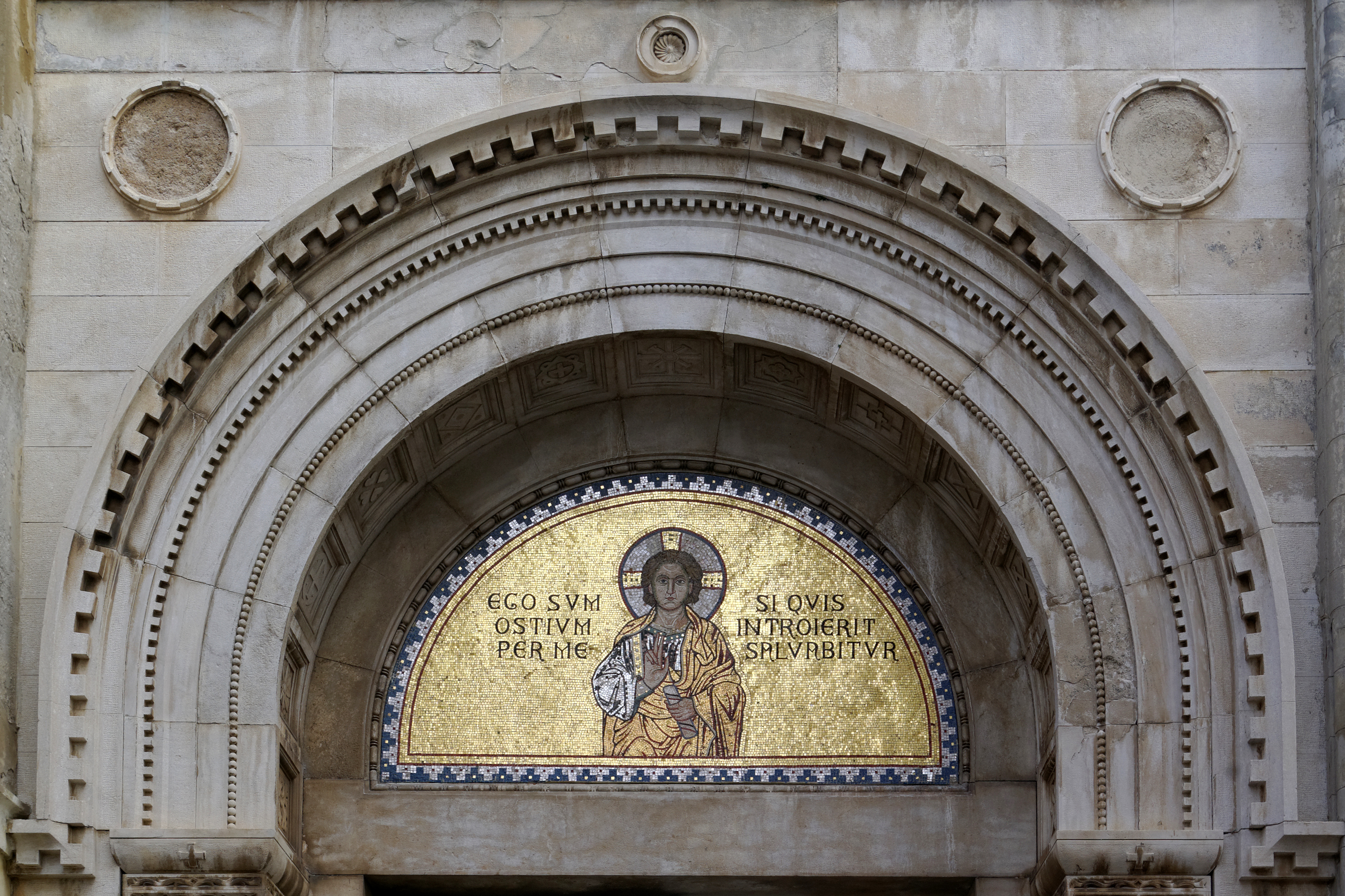 Croatia, Poreč, Euphrasian Basilica, portal